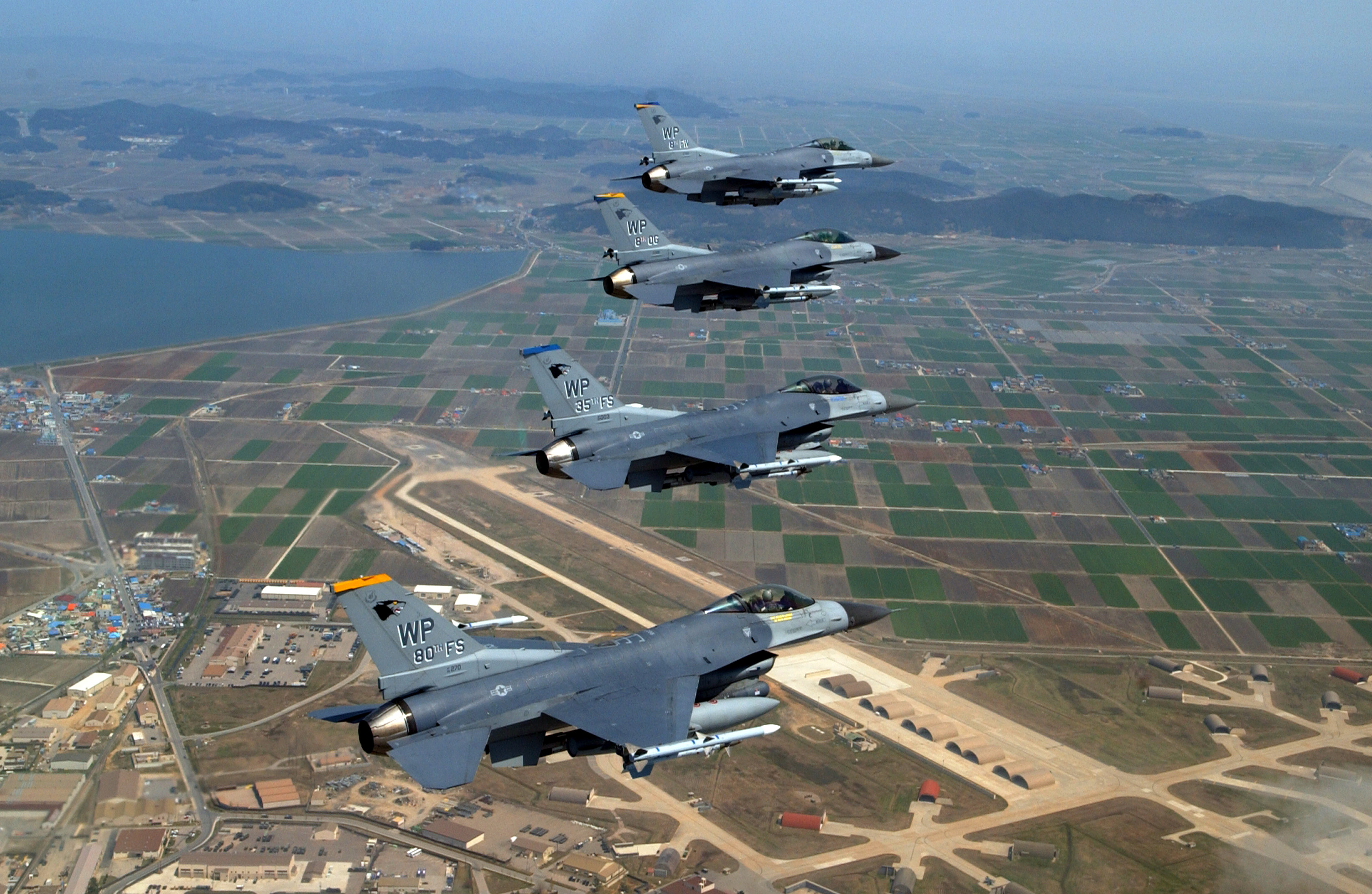 F-16 Falcons soar over South Korea Falcons soar over Kunsan AB.